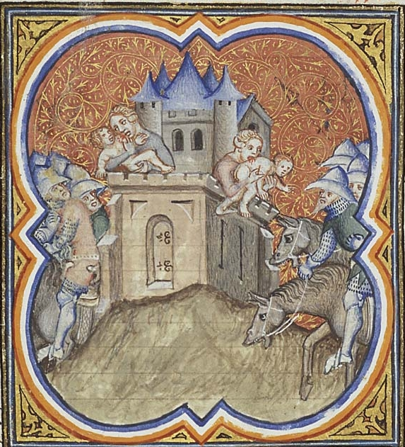 Nebuchadnezzar__camp_outside_Jerusalem._Famine_in_the_city